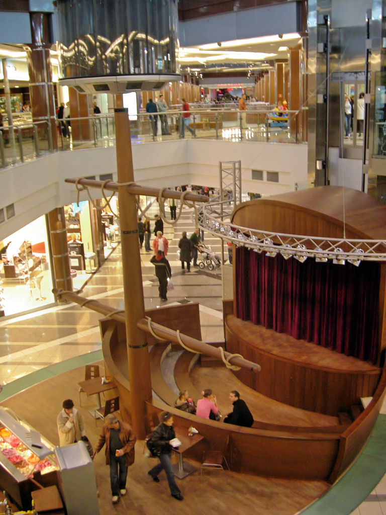 Plaza shop center, Poznań, Poland